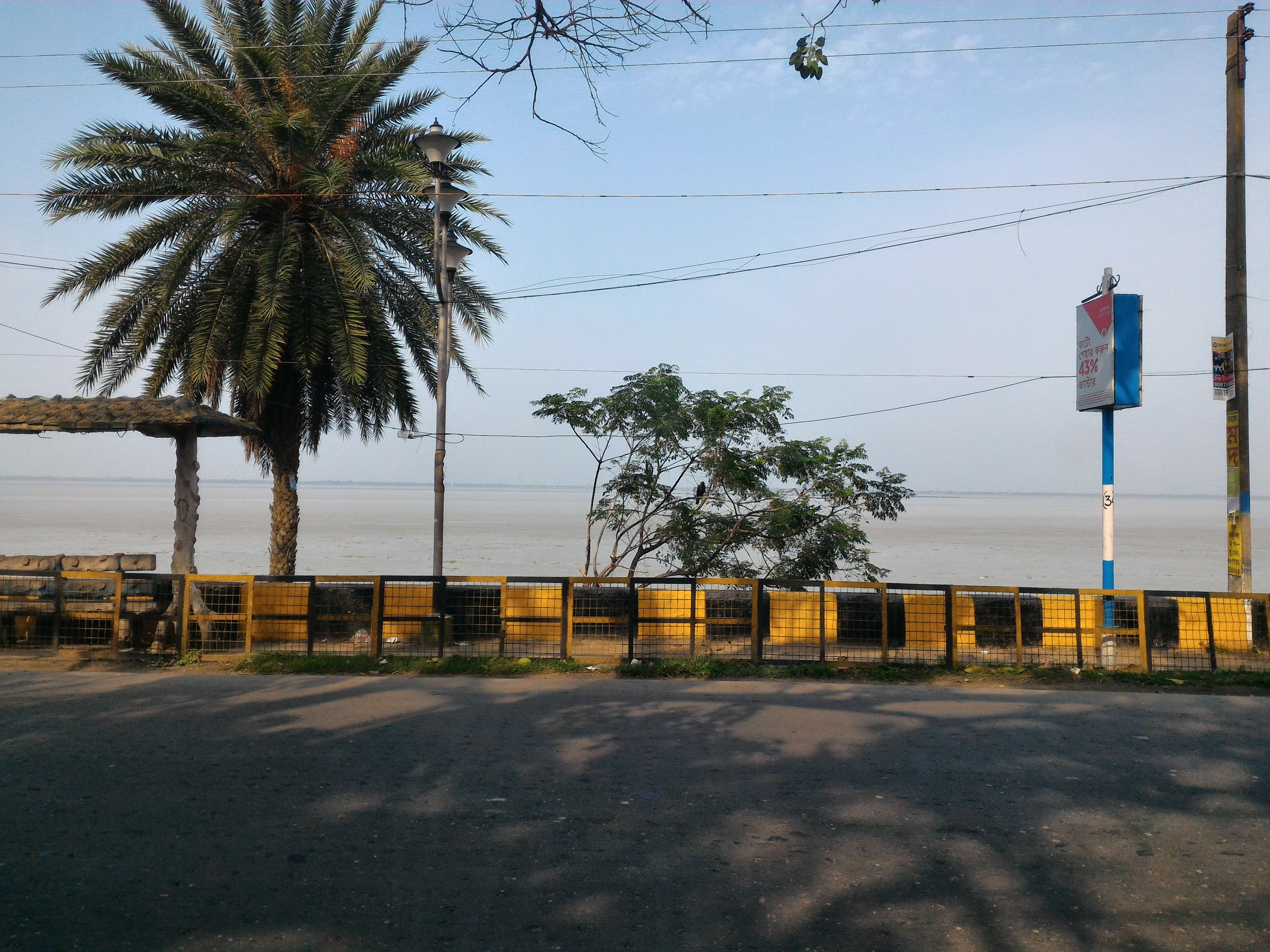 Diamond Harbour On The Bank of Hoogly River.